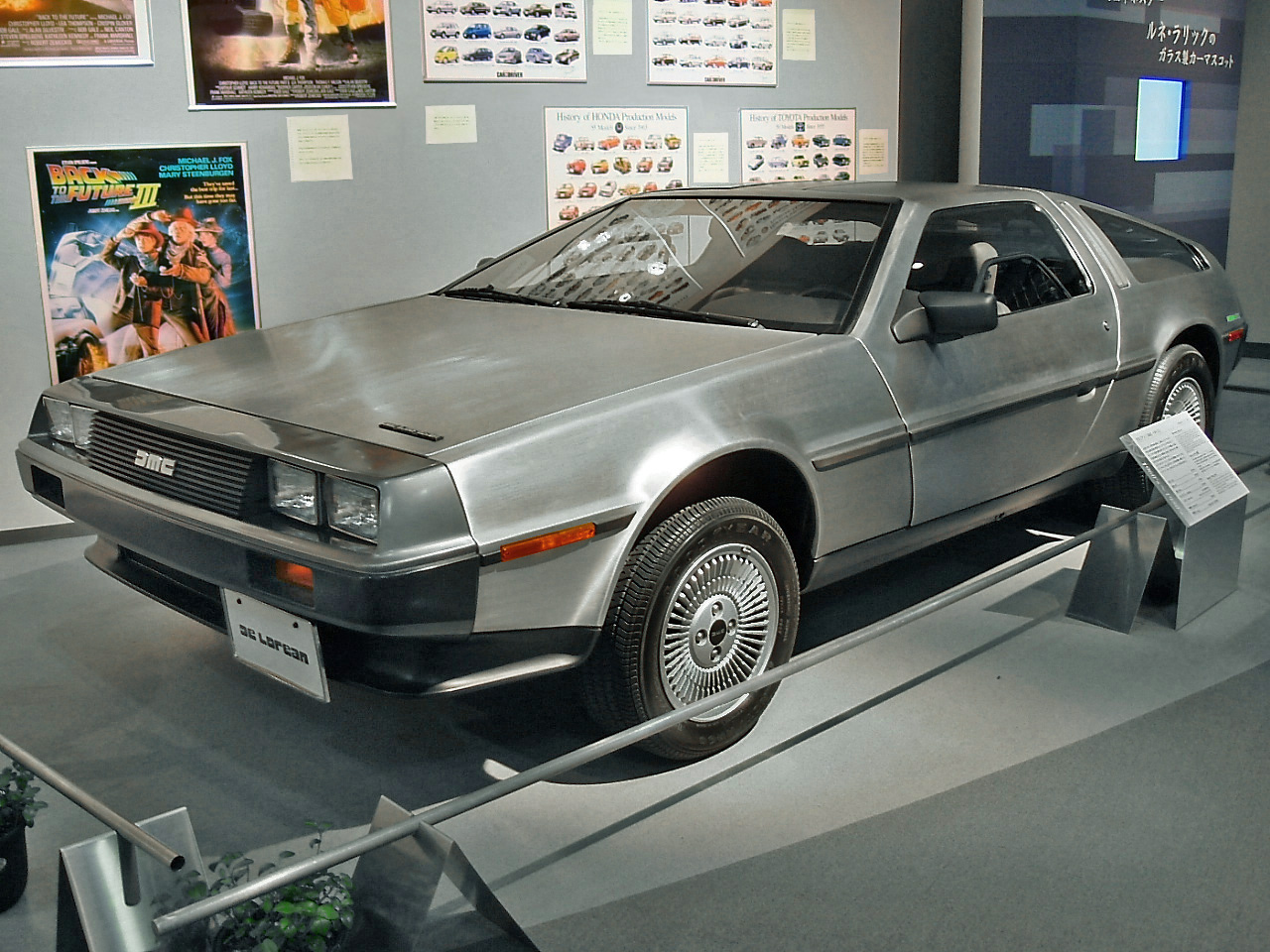 De Lorean DMC-12 in The Toyota Automobile Museum, Aichi Prefecture Japan